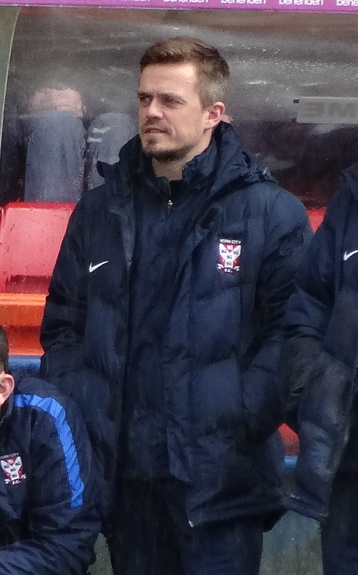 Simon Donnelly during York City's match against Bristol Rovers at Bootham Crescent, York on 30 April 2016